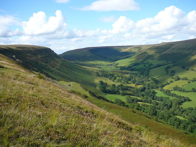 Eastern escarpment of Darren Lwyd